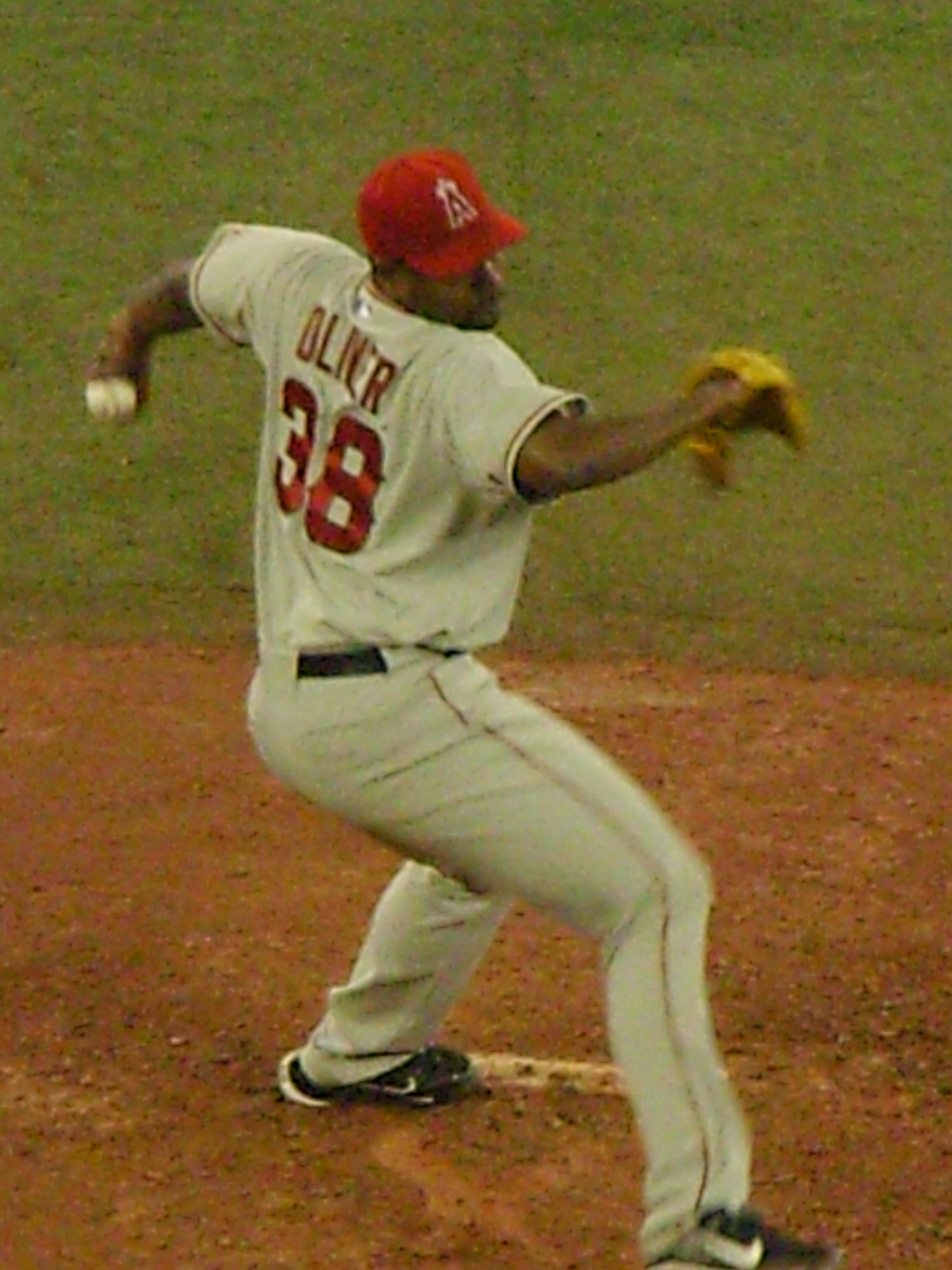 Photo of Darren Oliver pitching vs. Blue Jays @ Toronto